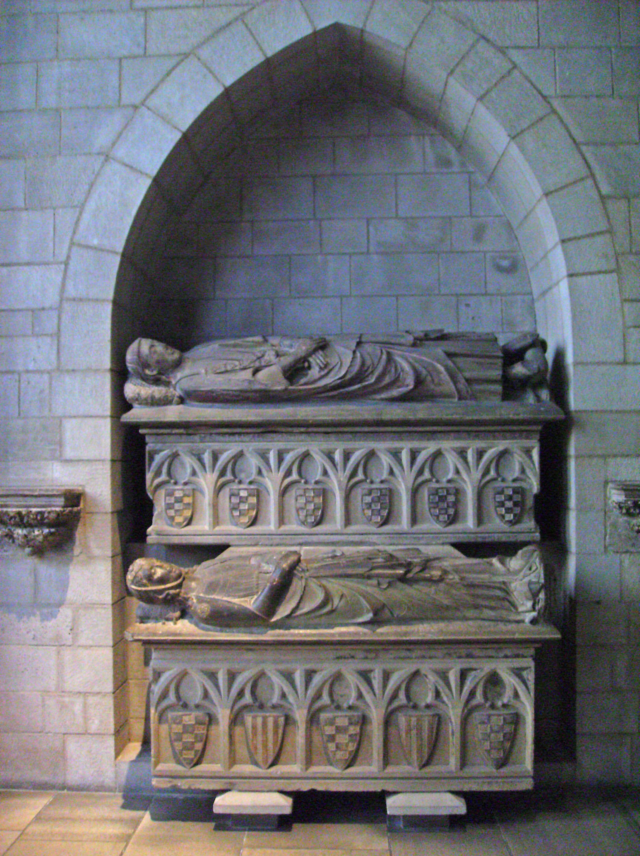 Double Sepulchral Monument of Alvar Rodrigo de Cabrera, Count of Urgell (Lleida-Catalunya), and His Wife, Cecilia of Foix , ca. 1300-1350 From the monastery chapel of Santa Maria de Bellpuig de les Avellanes, near Lleida Documentary evidence suggests that this tomb ensemble was made for Alvar Rodrigo de Cabrera and his wife, Cecilia of Foix, the parents of Ermengol X. The monastery of Bellpuig de les Avellanes was abandoned and badly damaged during the War of Succession that began around 1700. When the monastery was re inhabited in the 18th century, the church with its burial chapel was reconstructed. The sarcophagi with the arms of the counts of Urgell and Foix were probably made at that time to fit the original effigies.